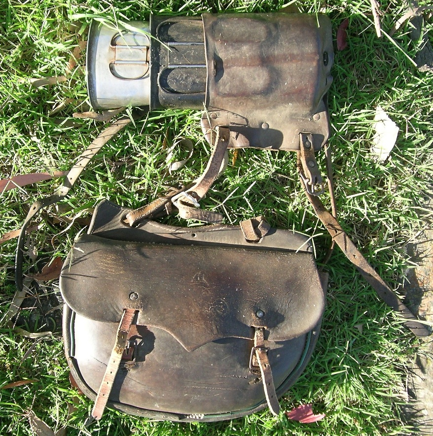 Pannikin, quart pot (to make tea), carrier and saddlebag to carry lunch.